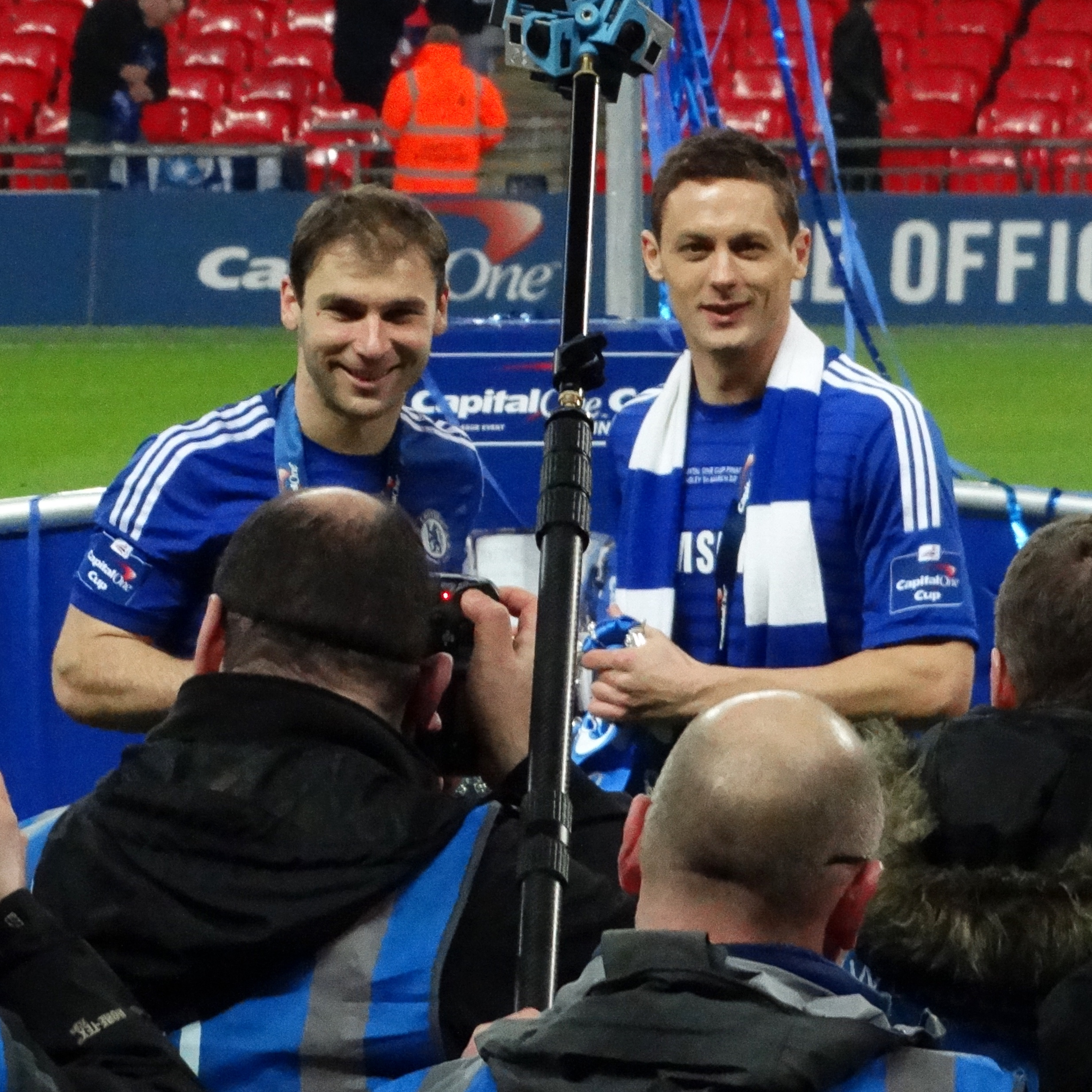 Chelsea 2 Spurs 0 Capital One Cup winners 2015